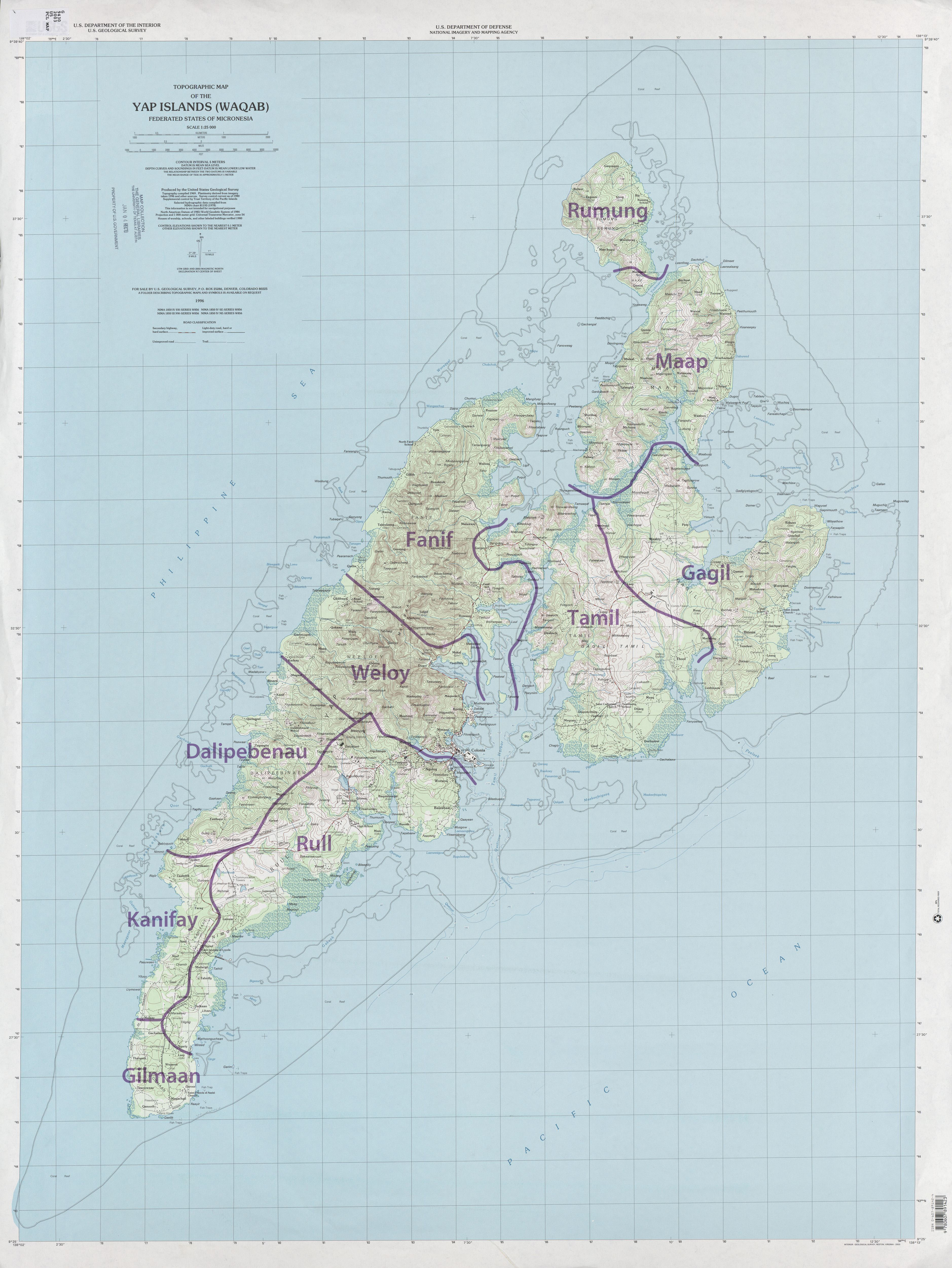 Yap Islands (Federated States of Micronesia) with municipality boundaries